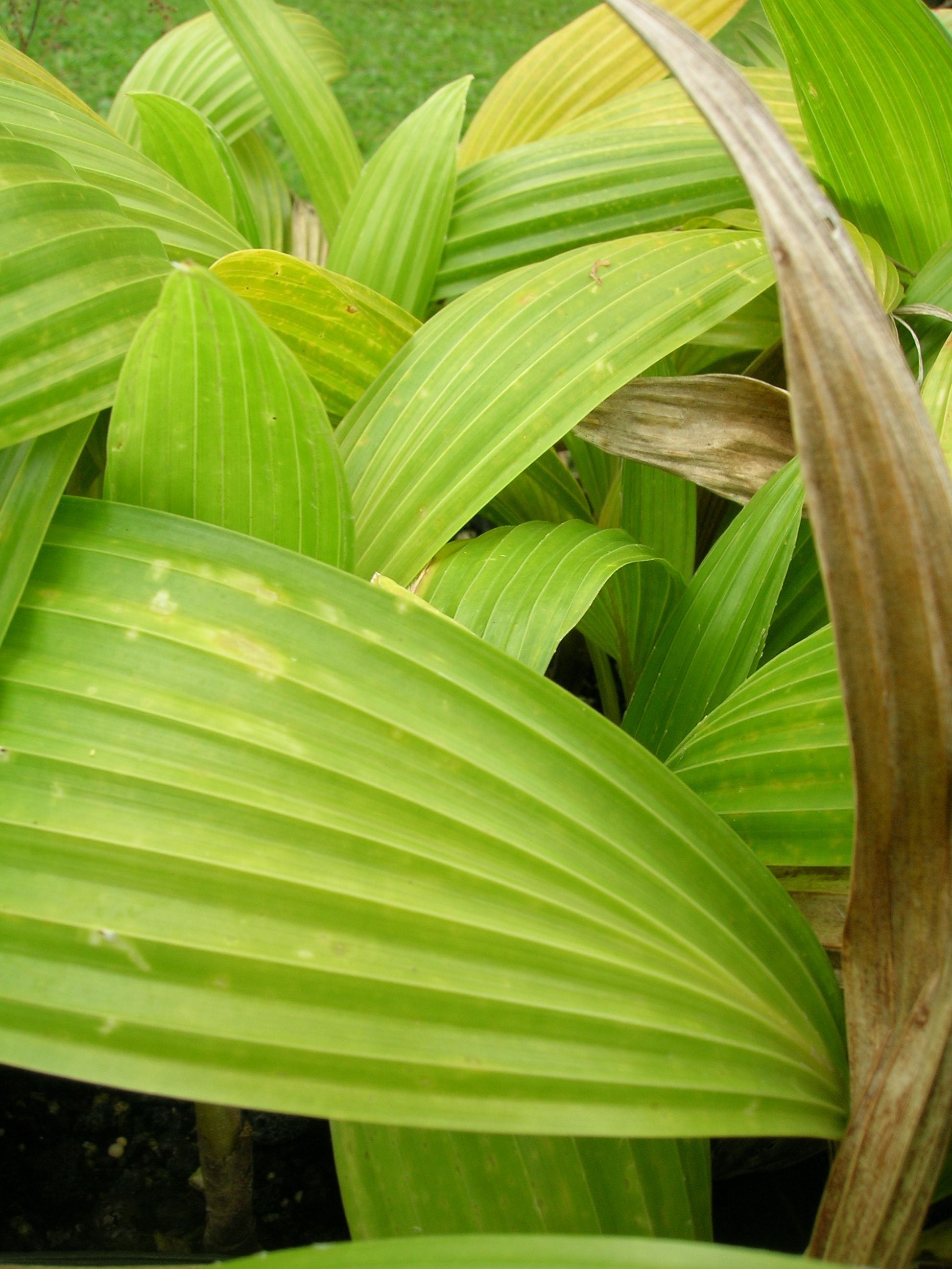 Pritchardia hillebrandii (in pots). Location: Maui, Makawao